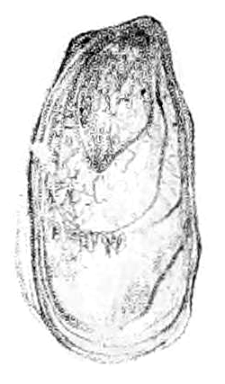 Drawing of the internal shell of Geomalacus maculosus.